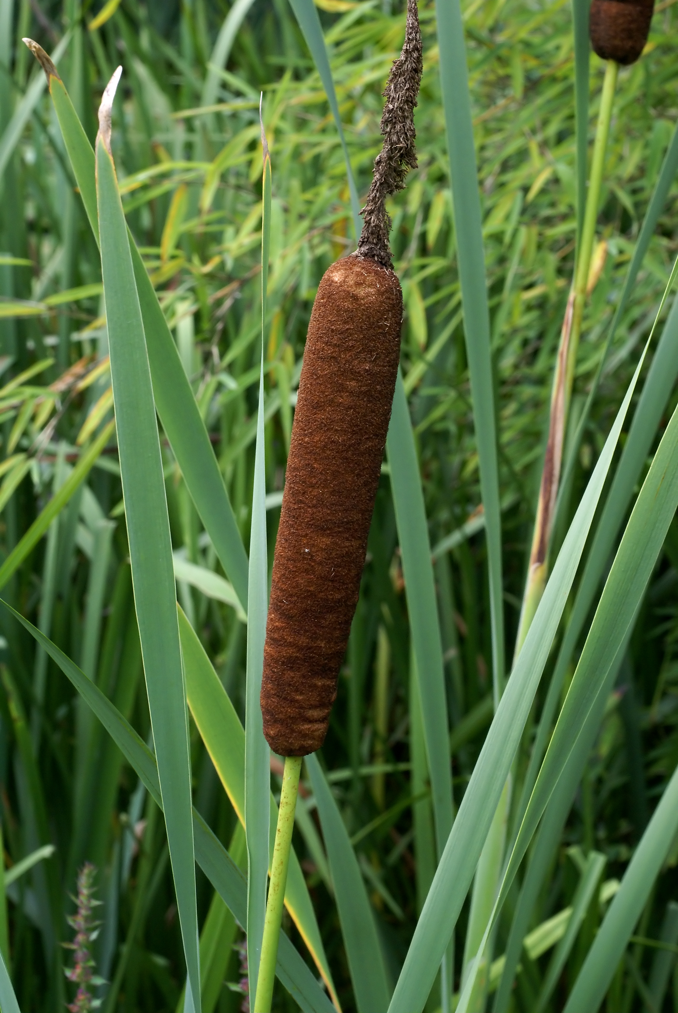 Inflorescence - Arboretum of Kalmthout, Belgium